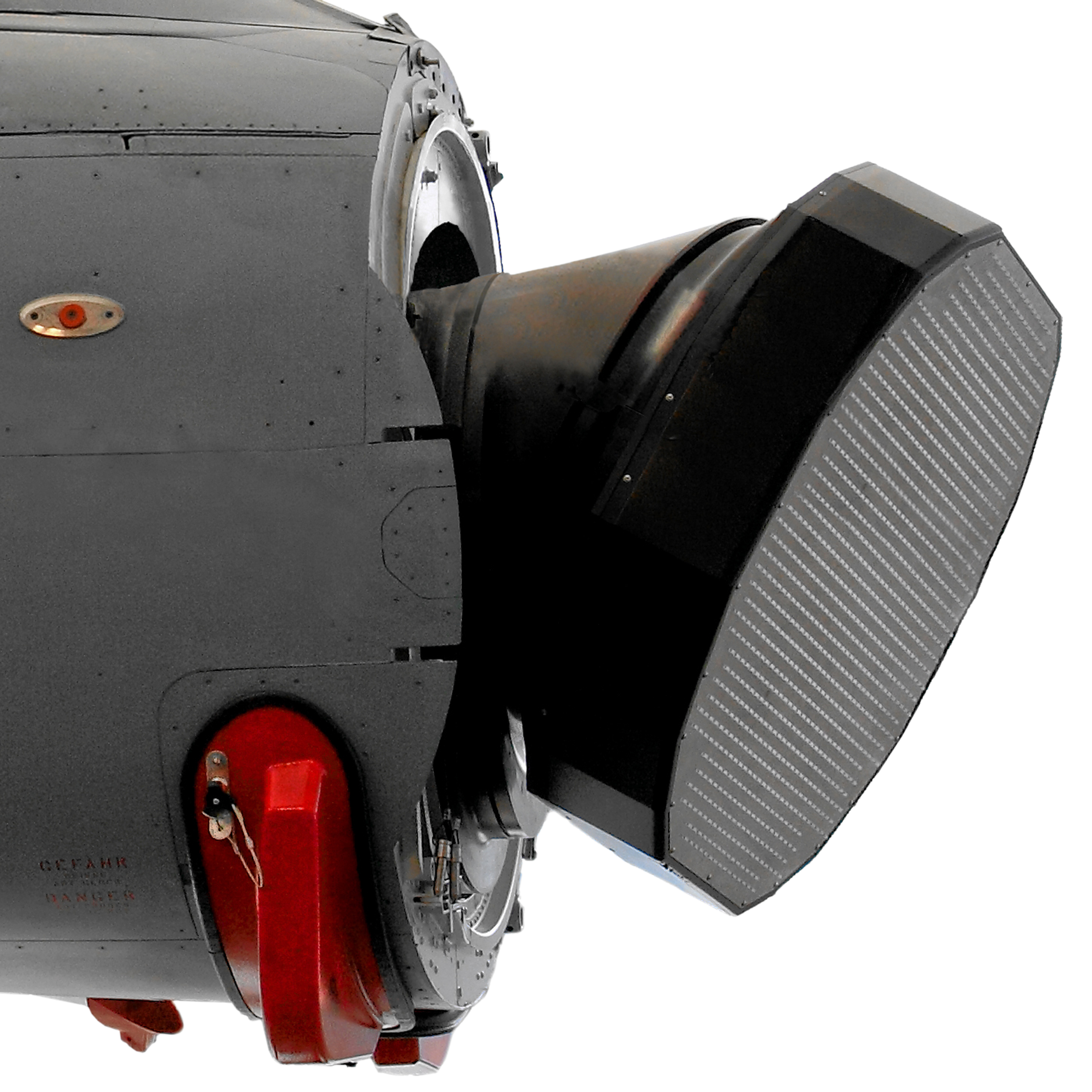 Eurofighter AESA antenna CAPTOR-E with Wide Field of Regard Repositioner.